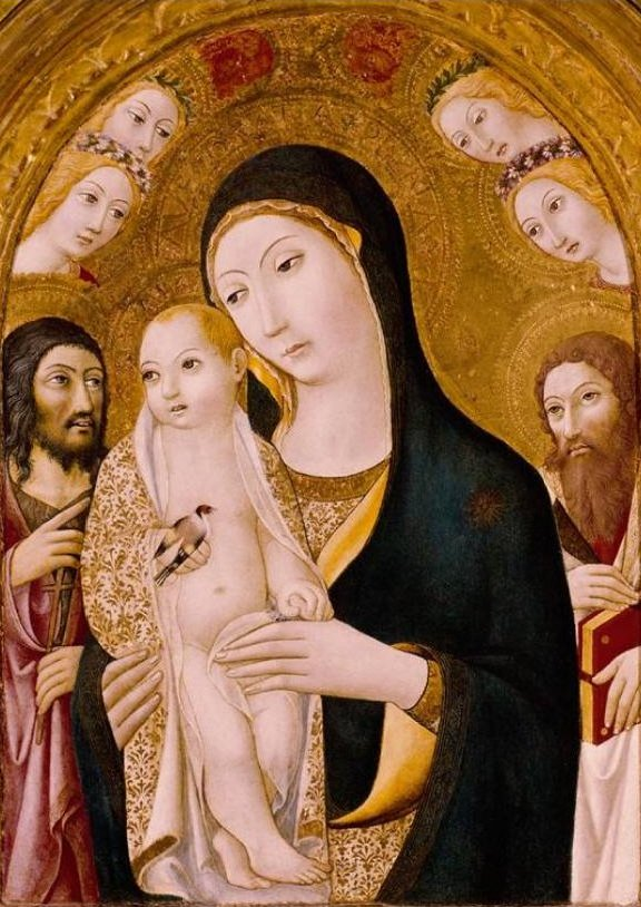 Madonna and Child with Saints and Angels